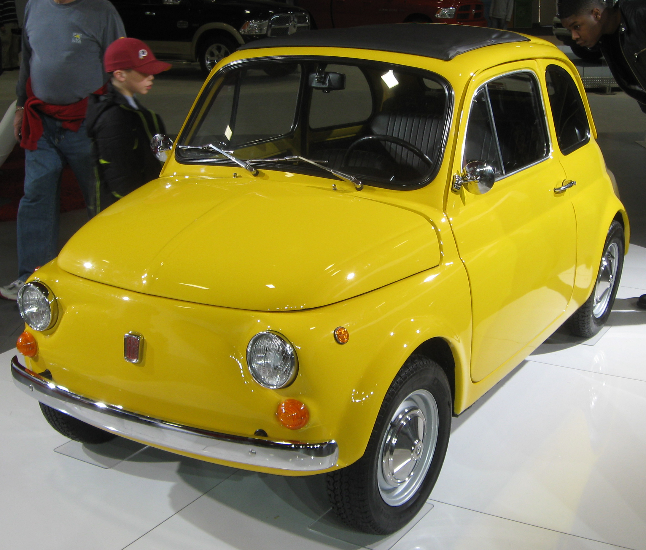 1970 Fiat 500 photographed at the 2011 Washington (D.C.) Auto Show.